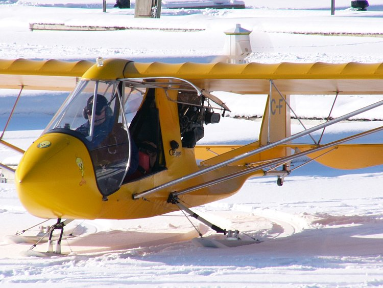 I took this photo of a Quad City Challenger (C-FSJD) on skis at Montebello 28 Jan 2006